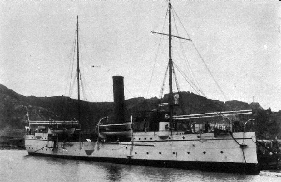 c. 1905 Photo from U.S. Warships of World War One, by P.H. Silverstone Fighting Ships